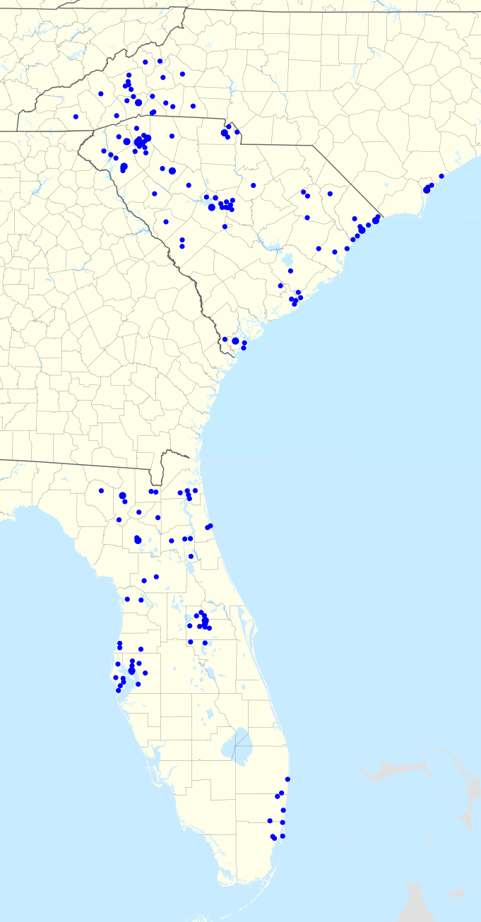 Footprint of South Financial Group branches within the United States. Zip codes with more than one branch have progressively larger points.